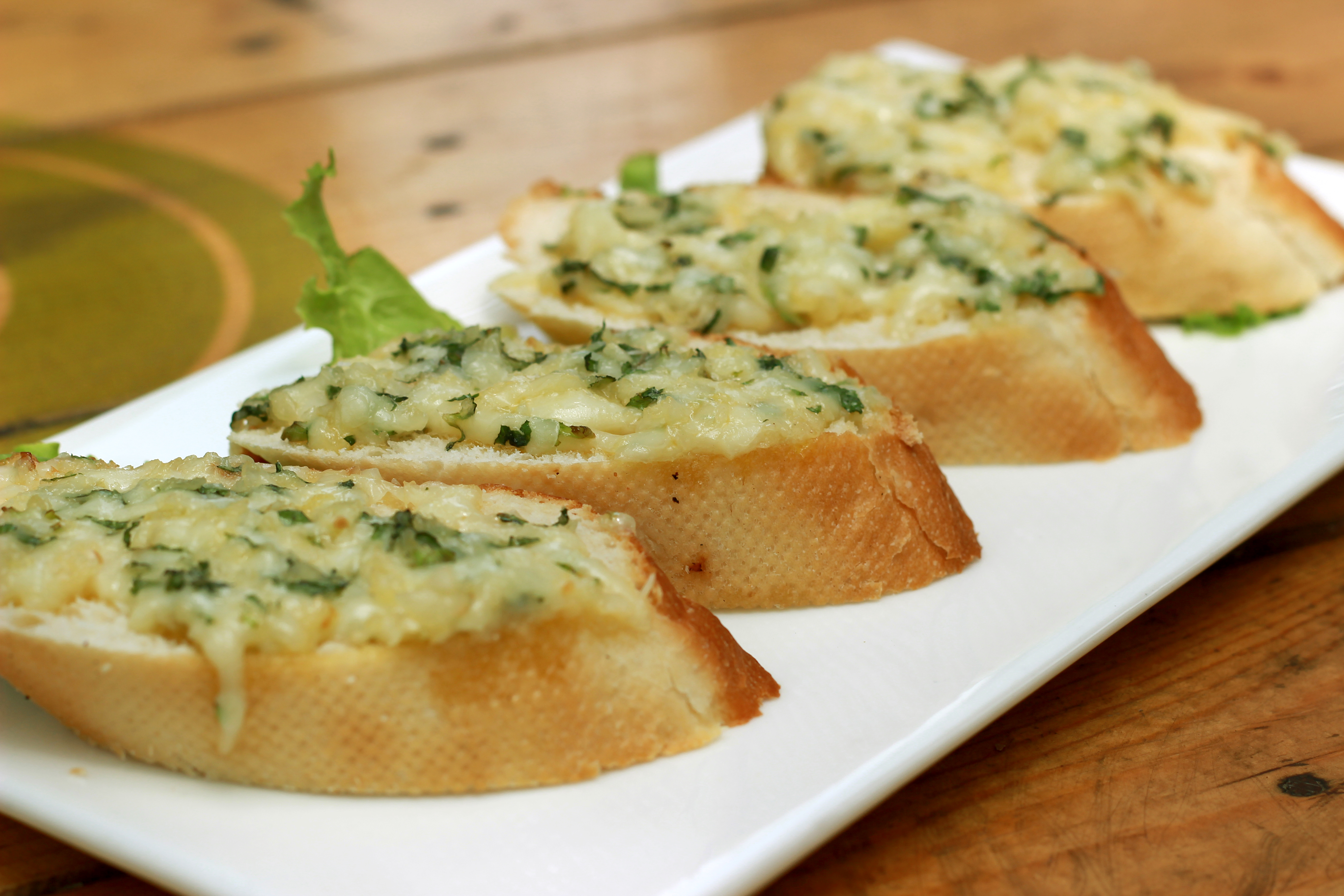 Cup'O Joe, Koramangala, Bangalore